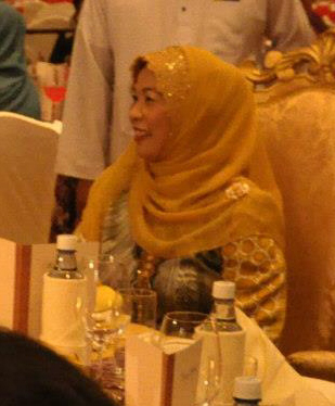 Sultanah Haminah Hamidun at a function in Kuala Lumpur.